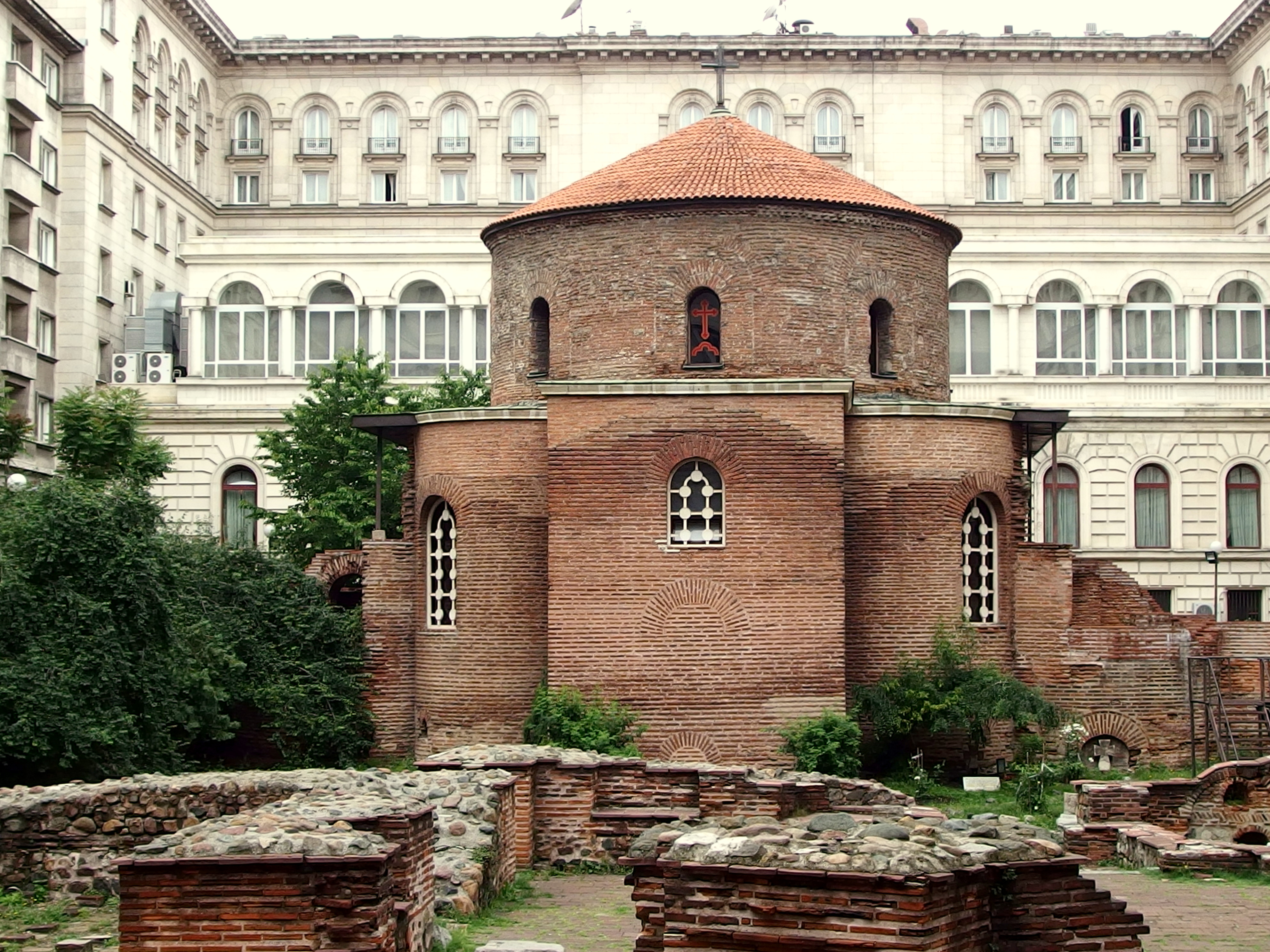 2014-06-18 in Sofia.